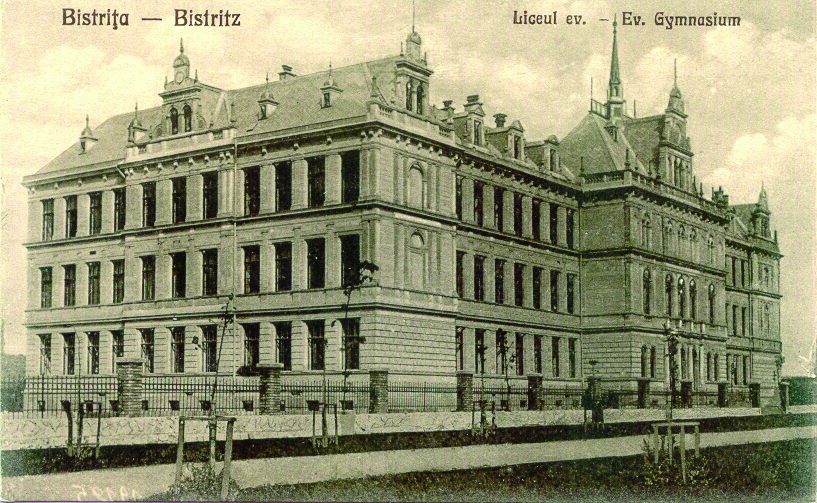 ˝Liviu Rebreanu˝ College, Bistriţa